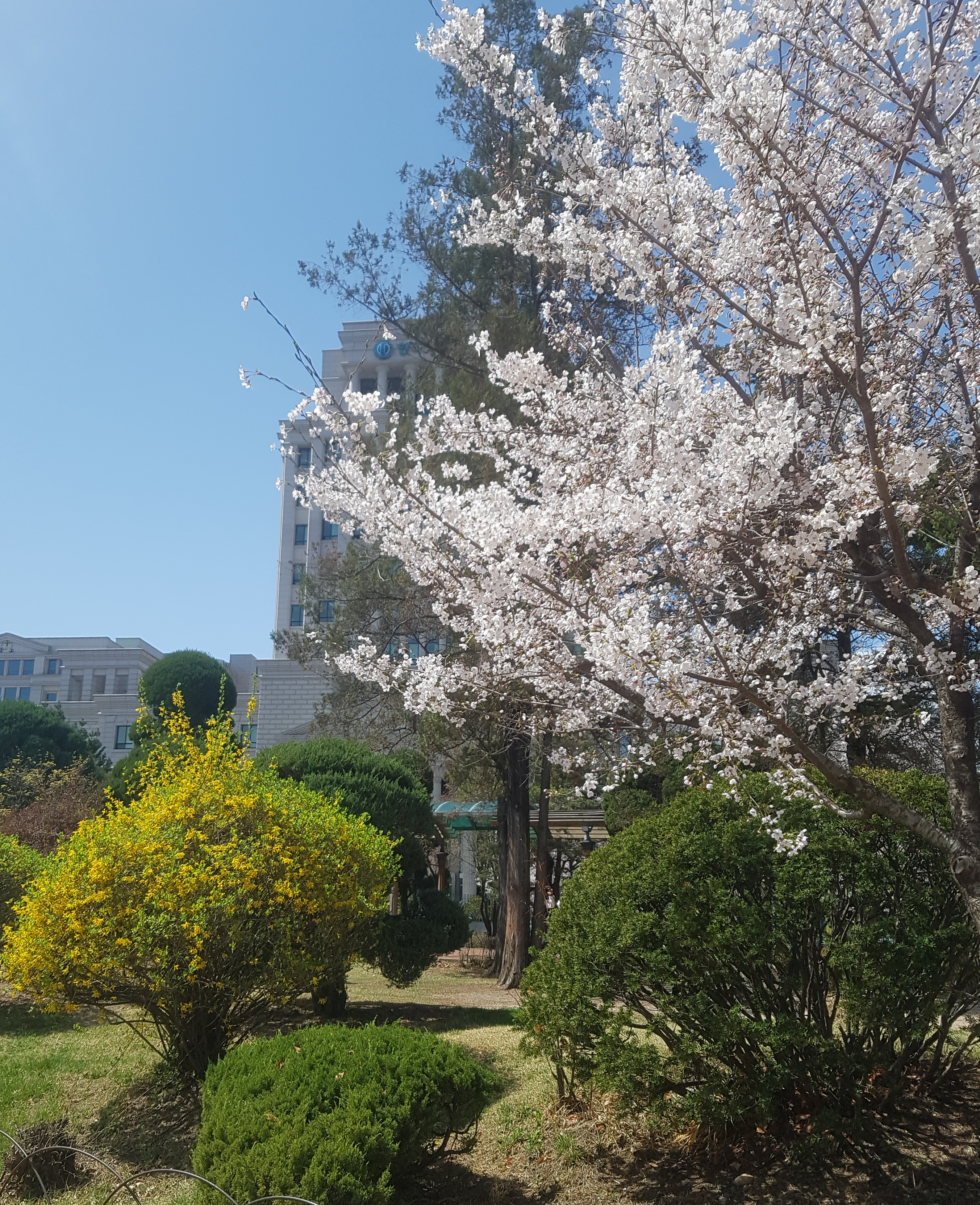 Hufs campus in full bloom